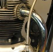 Matchless motorcycle exhaust